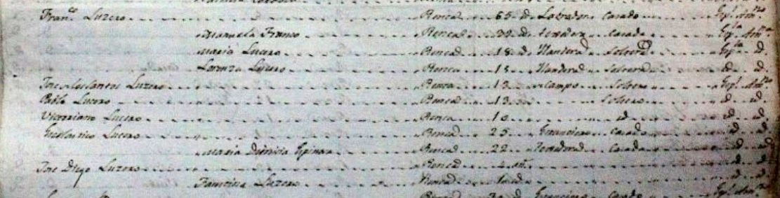 Census 1812, Renca, San Luis, Argentina. Fragment: Pablo Lucero, gobernor of San Luis, Argentina. His family.